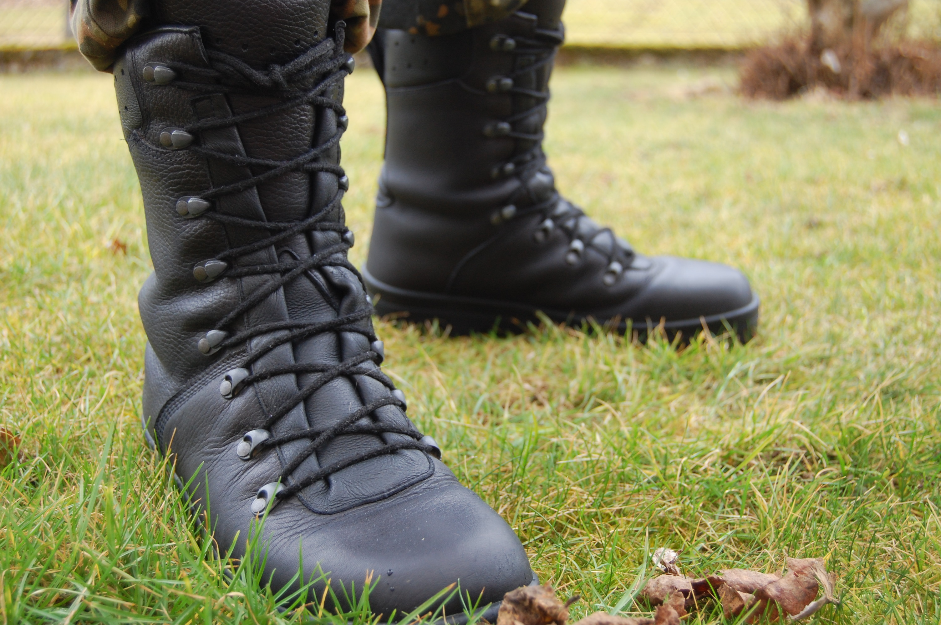 Model 2007 DMS, received in Octobre 2010, have been in service until March 2011 along with another pair. Current default boot of the German Army.